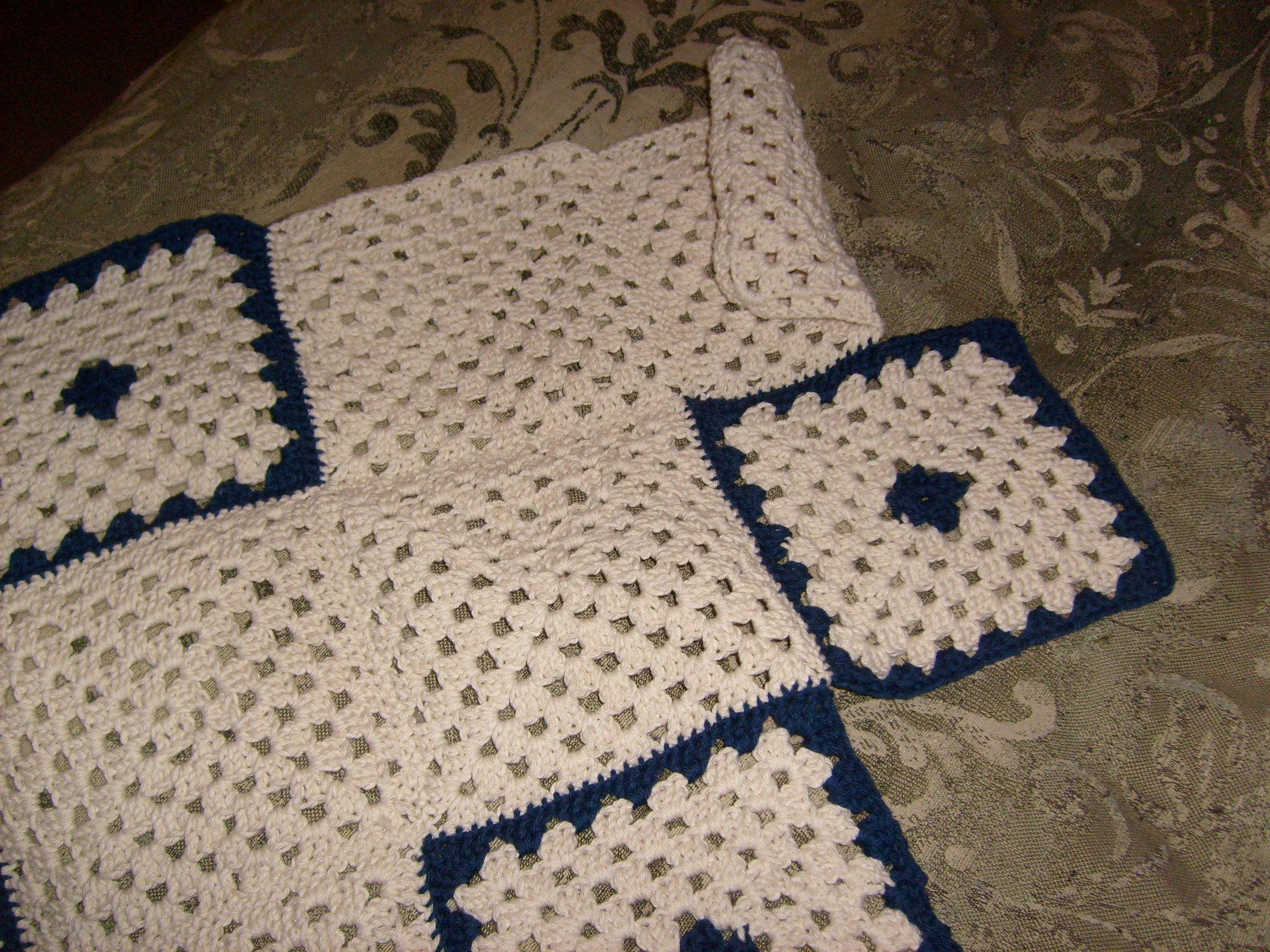 A crochet bedspread during piecing. Cotton; original design.